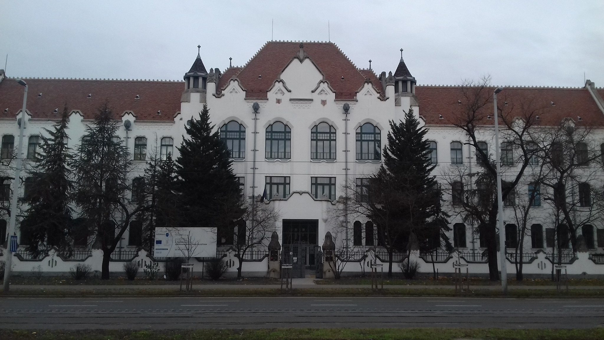 The facade of the Tündér (Fairy) Palace.